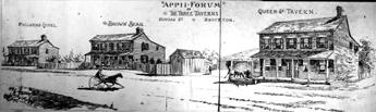 Appii Forum, formerly three taverns at tollgate on Dundas St, Brockton, Toronto